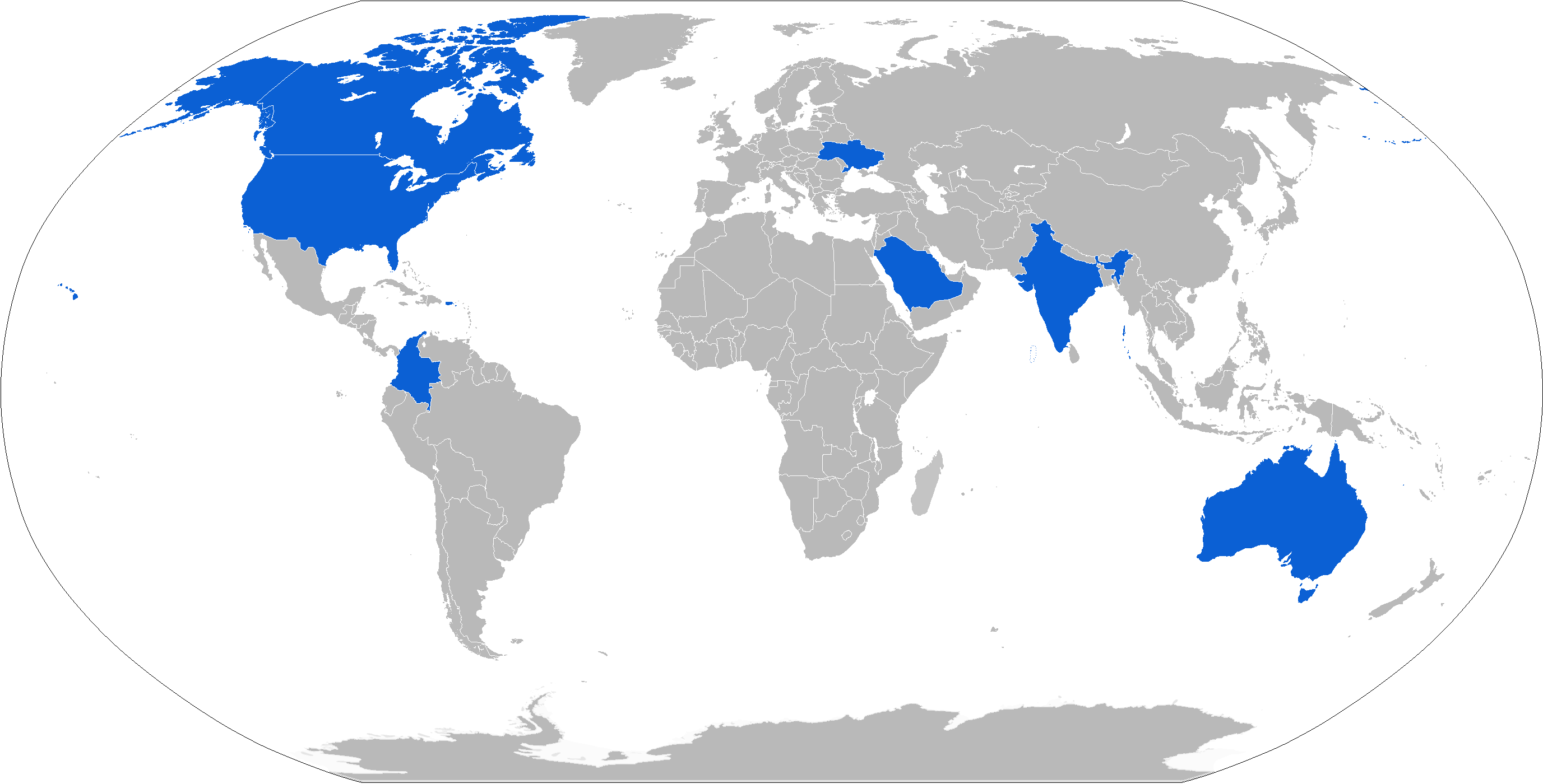 Map of M777 operators in blue